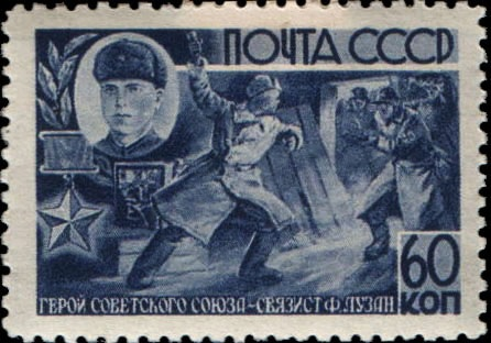 F. A. Luzan. 1944. July-September. Heroes of Soviet Union. Intaglio printing. Line perf. 12½. Artist I. Dubasov. 1096.